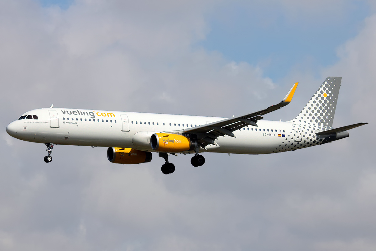 Aircraft: Airbus A321-231 Airline: Vueling Airlines Serial #: 6684